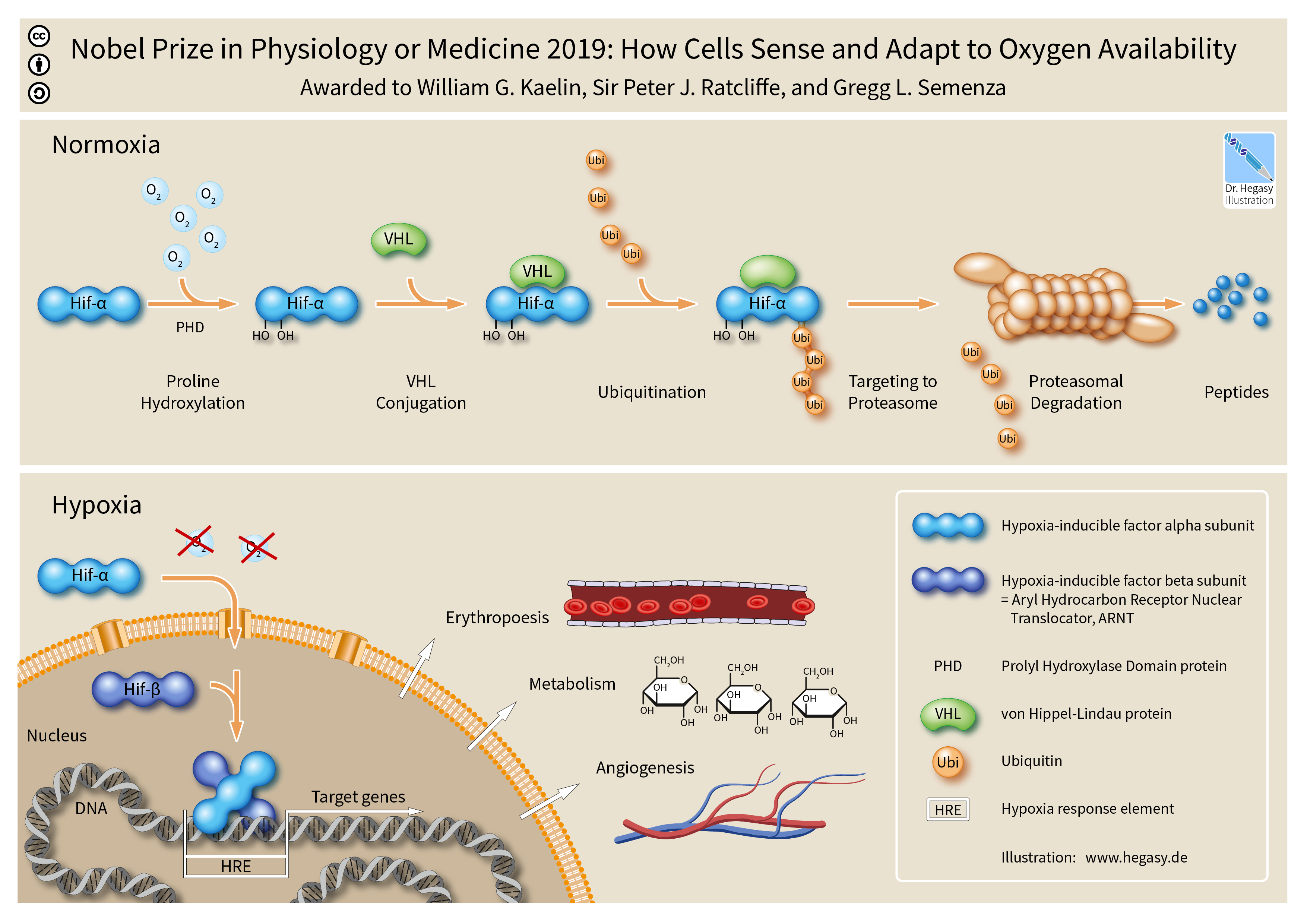 Nobel Prize in Physiology or Medicine 2019: How Cells Sense and Adapt to Oxygen Availability. Under normoxic conditions, Hif-1 alpha is hydroxylated at two proline residues. The protein then associates with VHL and is subsequently tagged with ubiquitin. Tagged Hif-1 alpha is then translocated to the proteasome, where it is degraded. Under hypoxic conditions, no oxygen is available for proline hydroxylation. In this situation Hif-1 alpha translocates to the cell nucleus and associates with Hif-1 beta, also termed ARNT. This complex then binds to a DNA region termed HRE (hypoxia responsive element). As a consequence target genes are transcribed. These genes are involved in the regulation of a multitude of processes, including erythropoesis, glycolysis and angiogenesis.